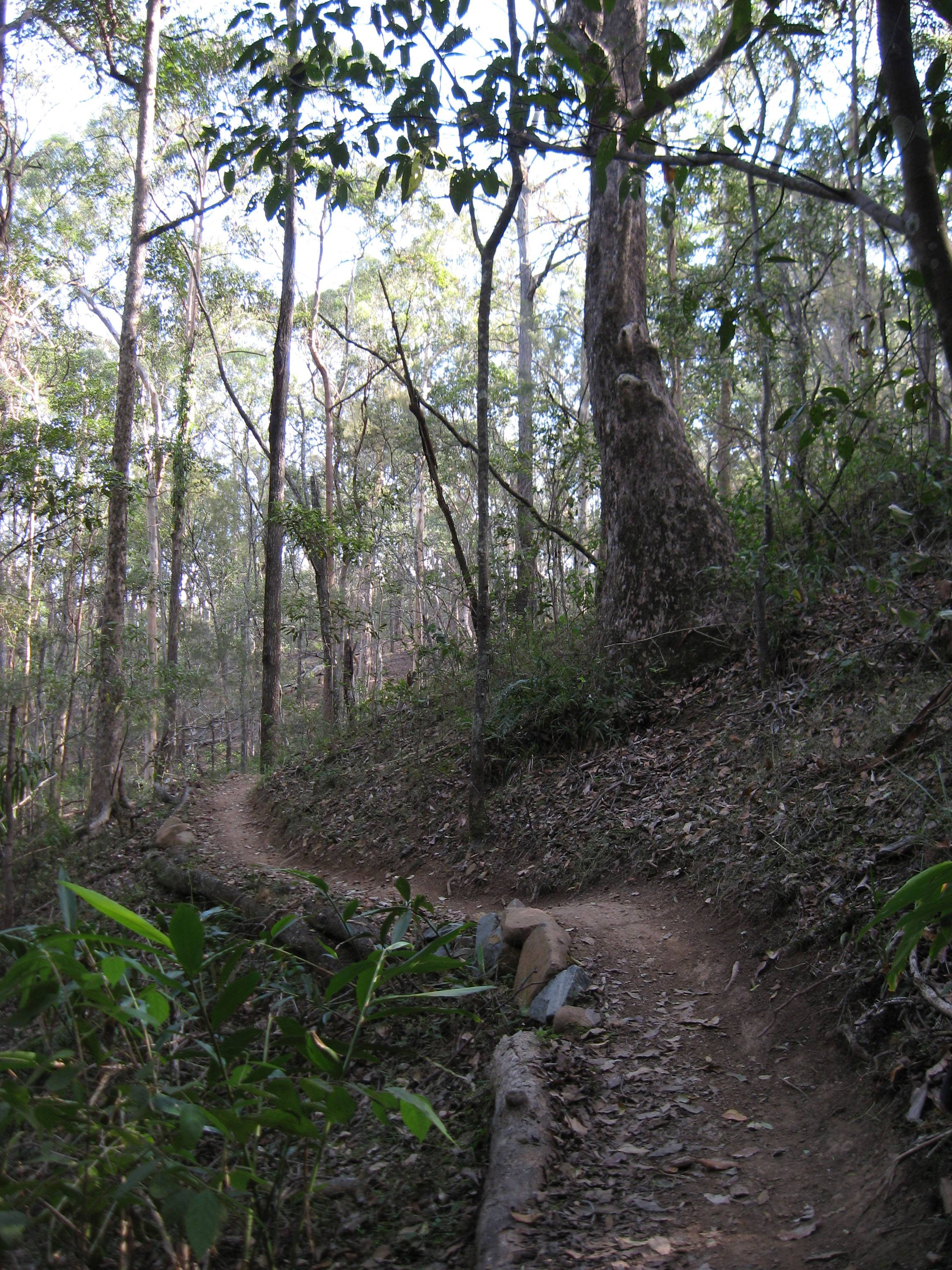 Cornubia Forest Nature Refuge, Logan City, Queensland, Australia - see Cornubia, Queensland. Walking and biking track near Ginger Gully, on the southern slope of the escarpment.